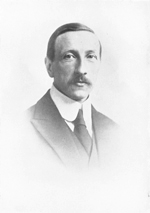 Arent Jan Wensinck (1882-1939), professor in Semitics and Islam, Leiden University (The Netherlands)